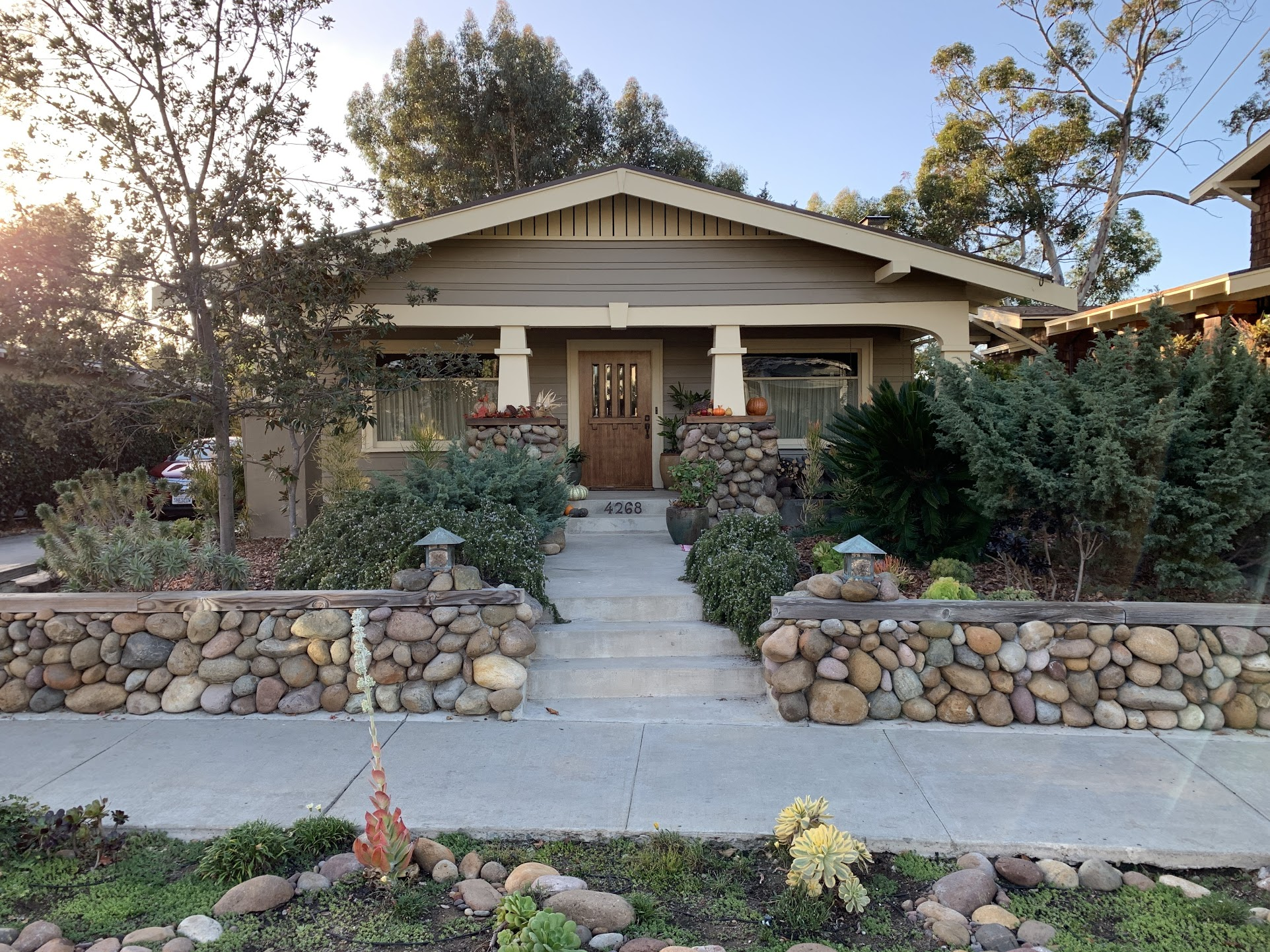 Architecture in Mission Hills, San Diego